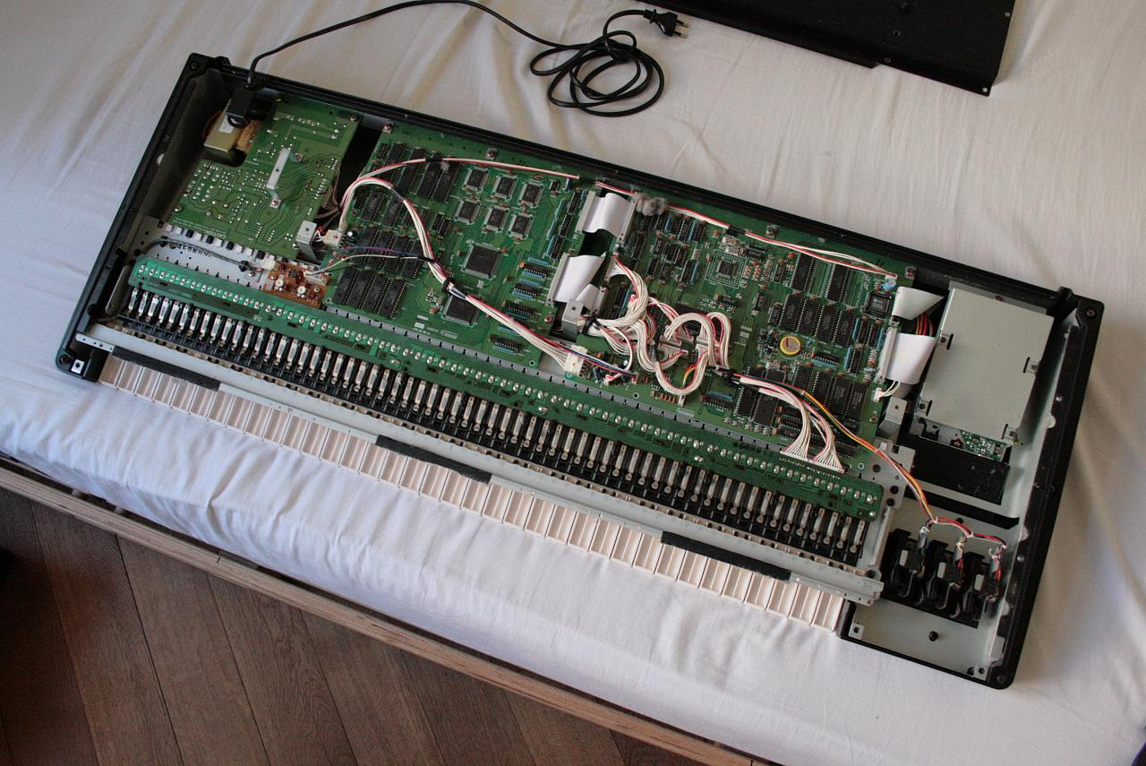 I opened up my 14-year-old SY77 synth because the disk drive suffered from the dreaded SY77-disk-drive-syndrome. It was easy to open, and it's very tidy inside. Except for the dust, of which there is a lot. I did vacuum the dust very carefully, but after I took the photos. About 2/3 of the ICs (chips) seen on the boards are Yamaha's own (YM… and XH…), and I wasn't able to find one bit of information on these chips, so I can only make wild guesses as to their purpose. The remaining ICs are mostly common TTL logic components (SN74…). Judging from the week-of-manufacture code on the chips, the synth was built after calendar week 27 (starting July 5th) of 1993 (9327). The DM1 and DM2 boards are stamped 93 8·27 and 93 8·30, respectively. Some of the YAMAHA chips have a ©1989 or ©1990 printed on them, which is when the hardware was designed.